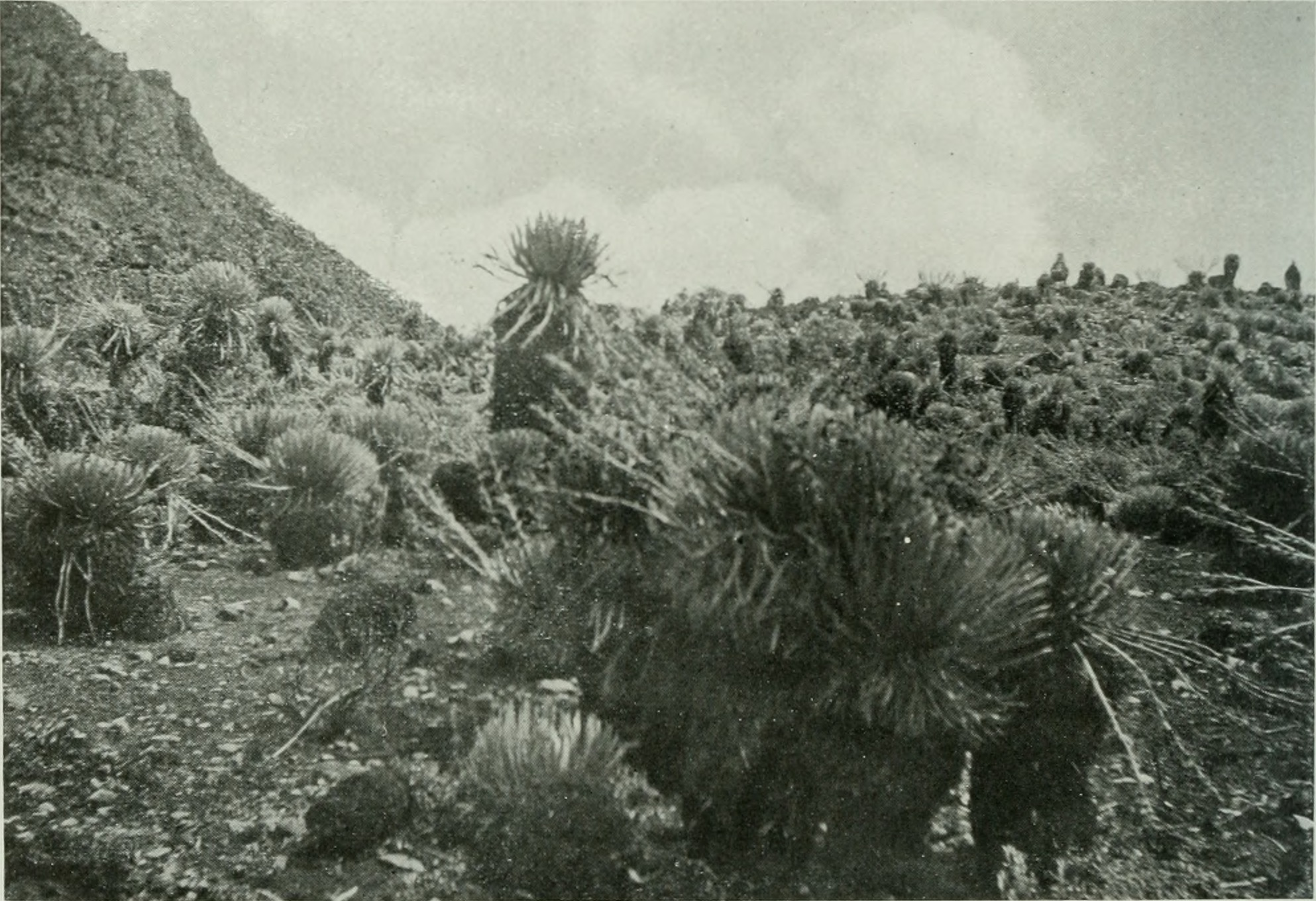 Title: The American Museum journal Year: c1900-(1918) (c190s) Authors: American Museum of Natural History Subjects: Natural history Publisher: New York : American Museum of Natural History Text Appearing Before Image: The Andes rise as a great wall at tlie southern end of Lake Maracuibo and during tlie winter are often wrapped in fog. The trails sidewind deep gorges, and houses are often perched on steep hillsides. In the lower zone the climate is humid and the vegetation rank and tropical. Coflfee is grown on the steep mountain sides under a cover of larger trees. The plantain — a coarse banana — is often cut green and toasted in thin slices as a substitute for bread Text Appearing After Image: The principal plant of the paramo of the Andes—the land above timber line, beginning at ten thousand feet elevation —is the Espeletia, with leaves heavily felted against the cold with down that resembles cotton 22